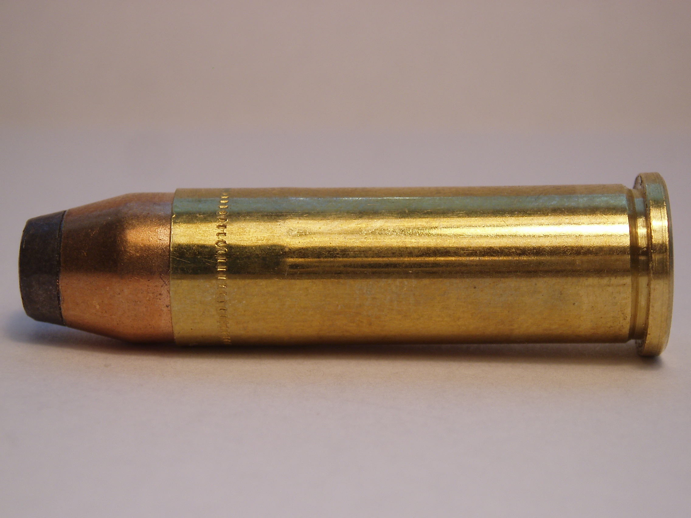 .38 Special revolver cartrdige. SP bullet. Manufacturer: Sellier & Bellot.